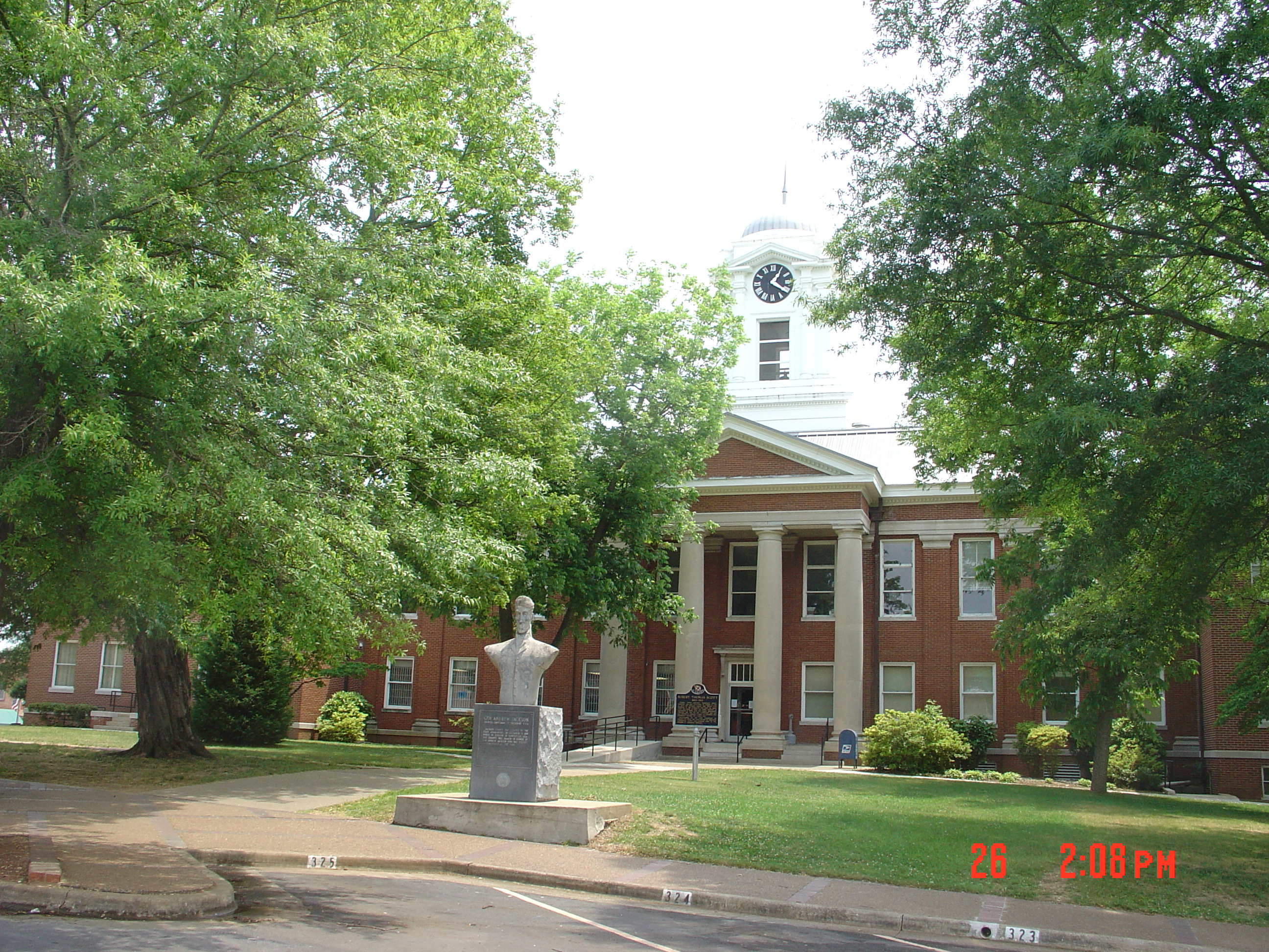 Photo I took myself